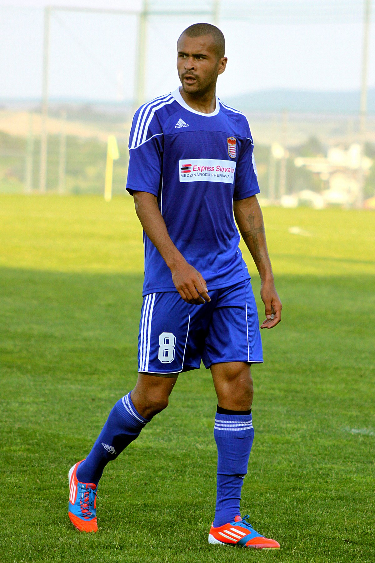 Friendly match SV Mattersburg vs FK Dukla Banská Bystrica (2:2) at 2013-06-21 in Mattersburg. – The photo shows Dionatan Teixeira (FK Dukla Banská Bystrica).